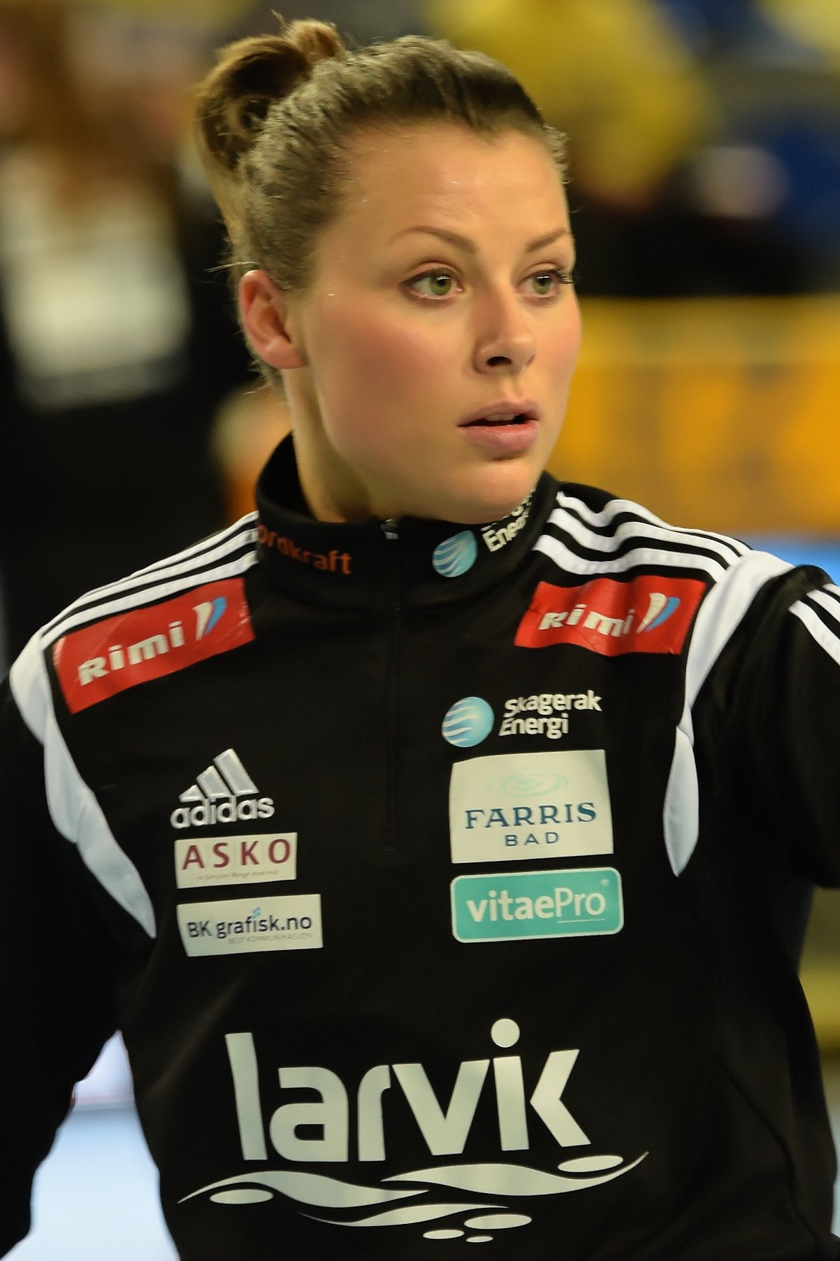 Nora Mørk - EHF Champion's League, Metz Handball / Larvik HK - 15 november 2014.